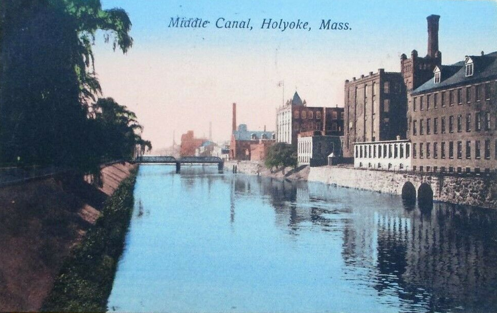 Photo of the Middle Canal of the Holyoke Canal System, visible at the far-right is the Beebe & Holbrook Paper Mill, now identified as the Canal Gallery today, and further away on the right are the two mills of the Merrick Thread Company, eventually known as the American Thread Company. The building with the large smokestack and castle-like appearance still stands today, its neighbor in the center-right with the pyramid roof would be razed in a fire around 1993. Out of frame behind the foliage at the left would be the Sears Building of Paper City Studios, and the former Judd Paper plant, now Gateway City Arts.